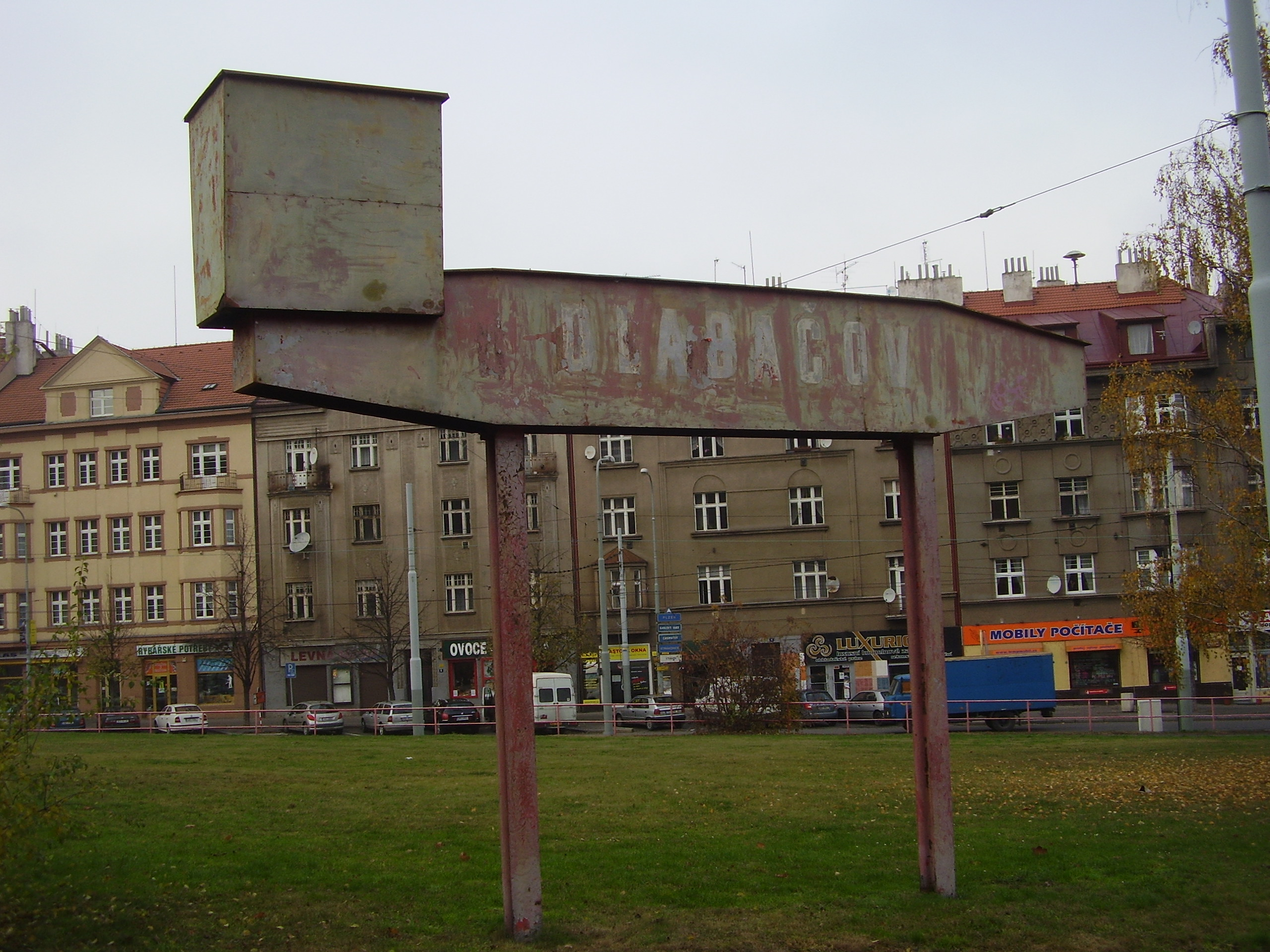 Legend, Tram turning place Dlabačov, Prague